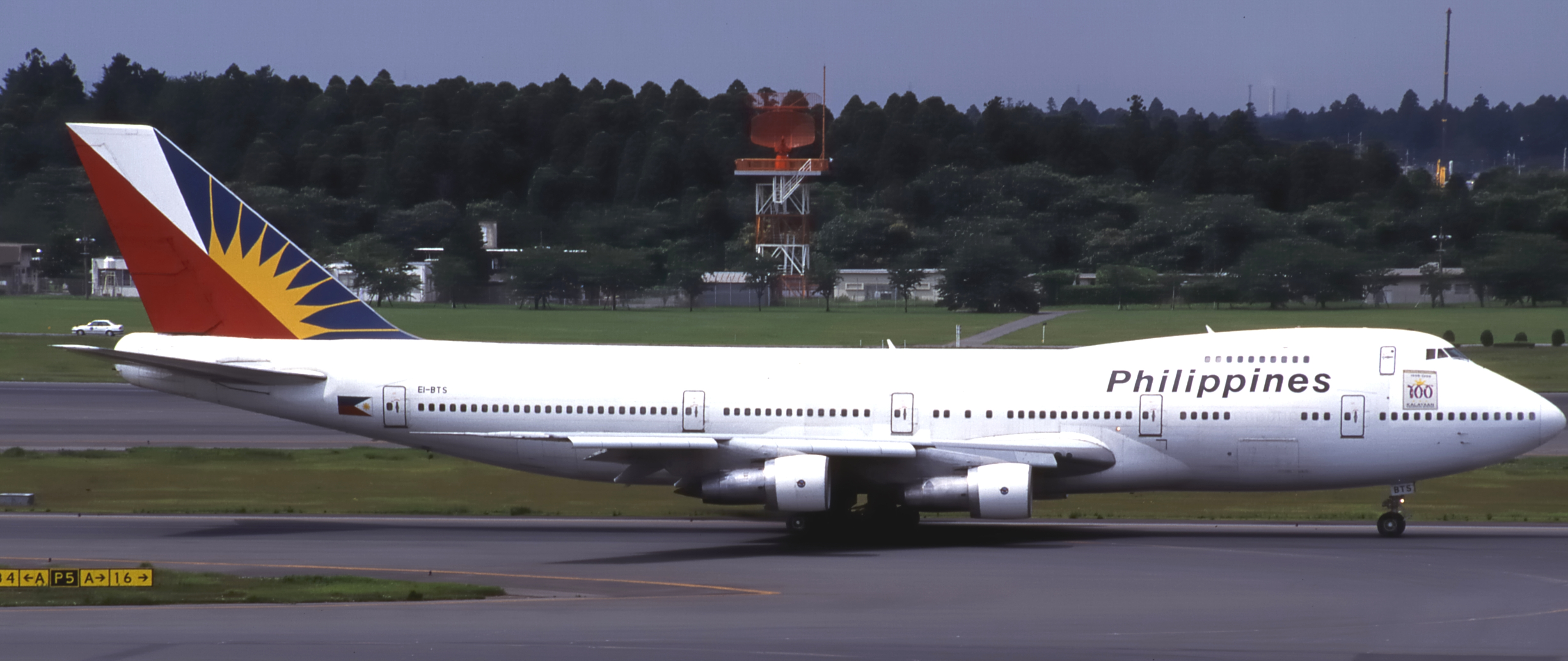 Philippine Airlines Boeing 747-283B(SCD) (EI-BTS/22381/500) with Philippine Centennial sticker